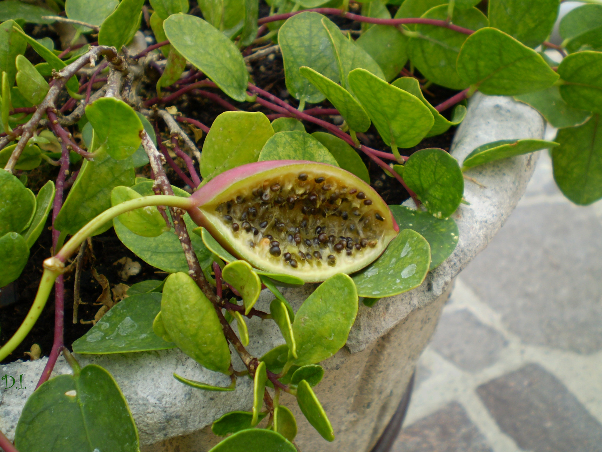 fruit and seed of Capparis spinosa